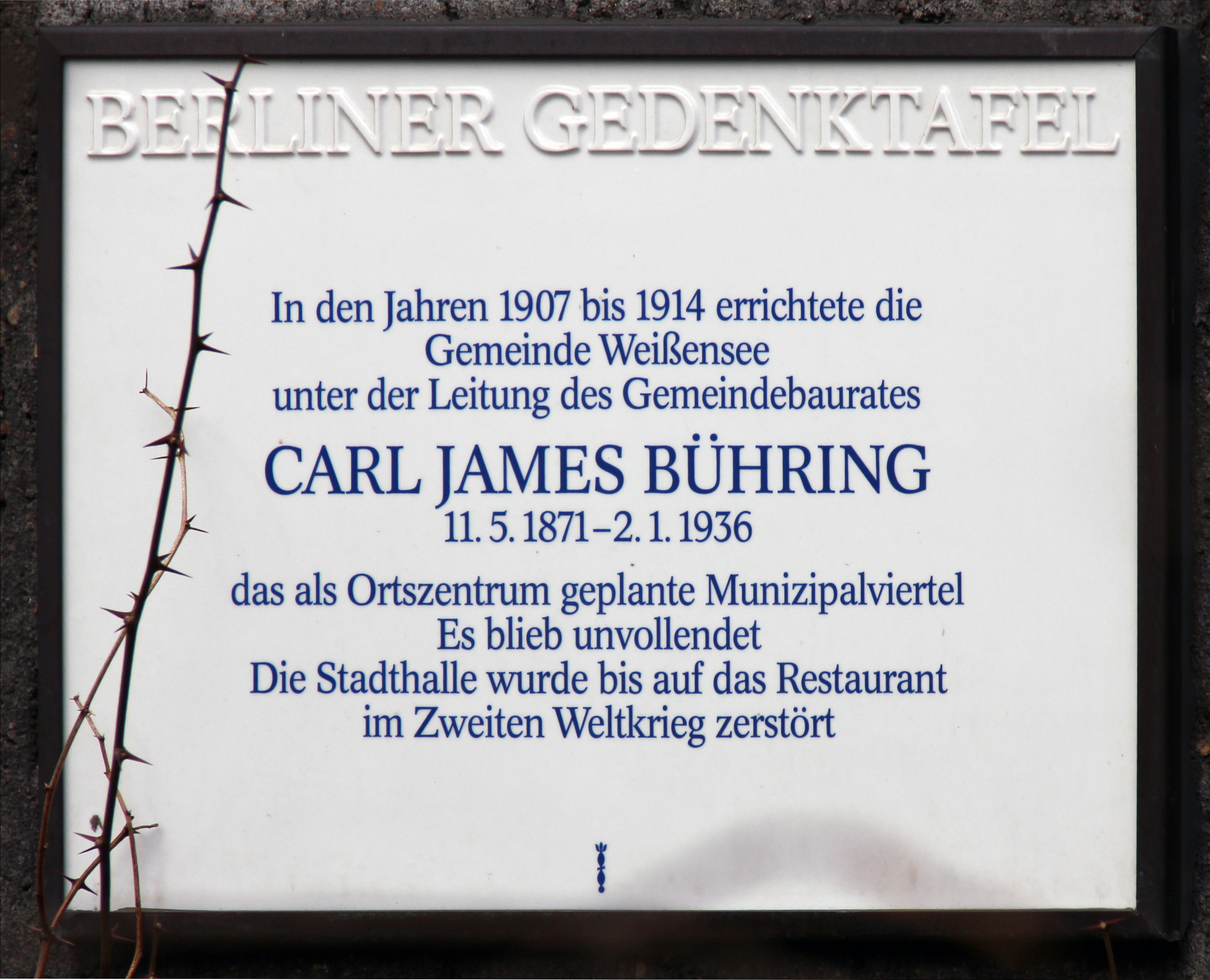 Berlin memorial plaque, Carl James Bühring, Pistoriusstraße 24, Berlin-Weißensee, Germany